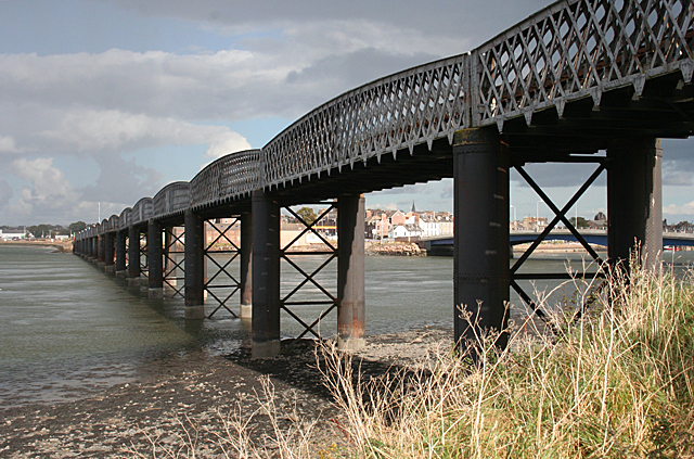 Montrose Viaduct. The viaduct carries a single railway track across the entrance to Montrose Basin.